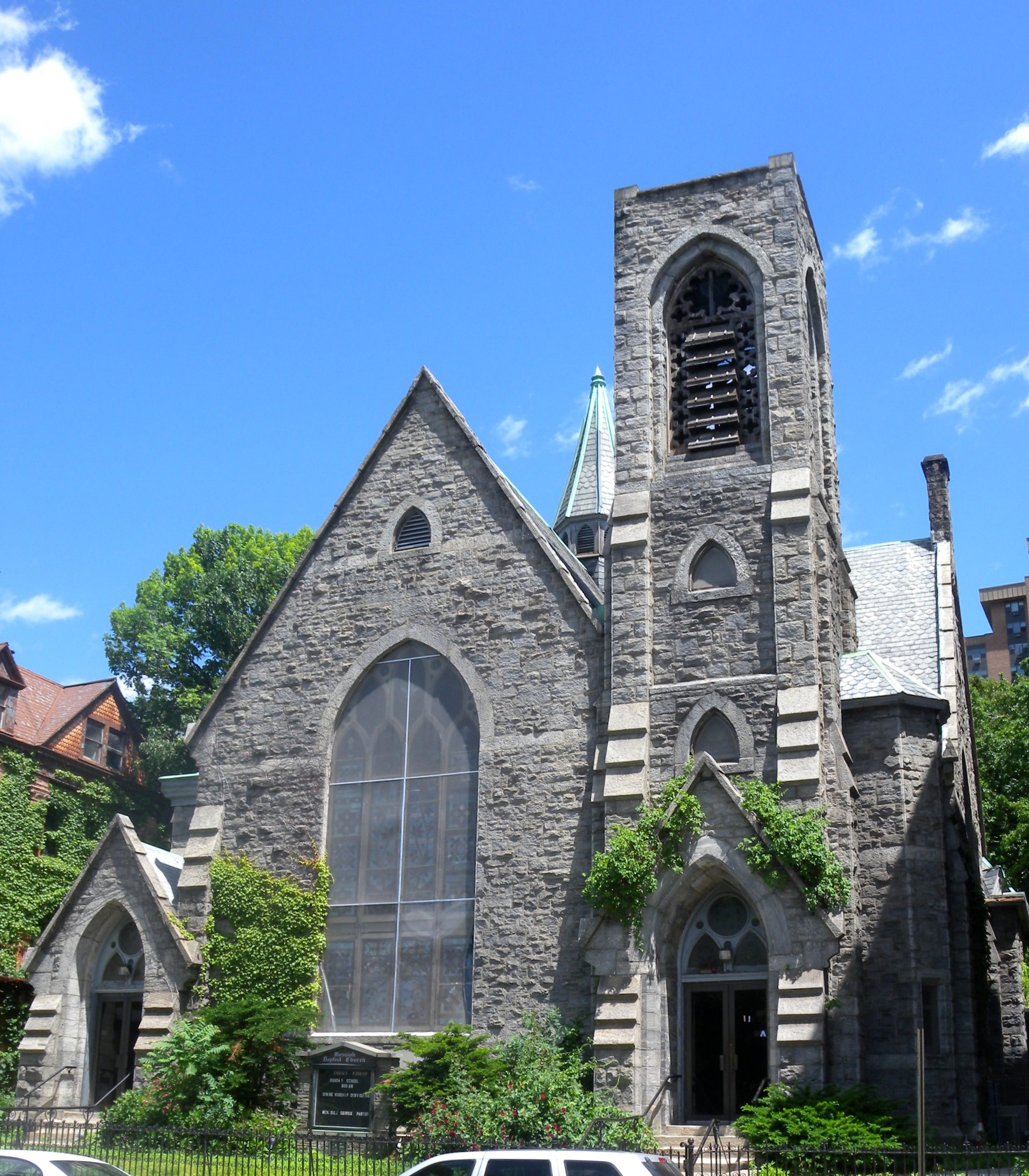 Looking east across Wharburton at Baptist Church on a sunny early afternoon.